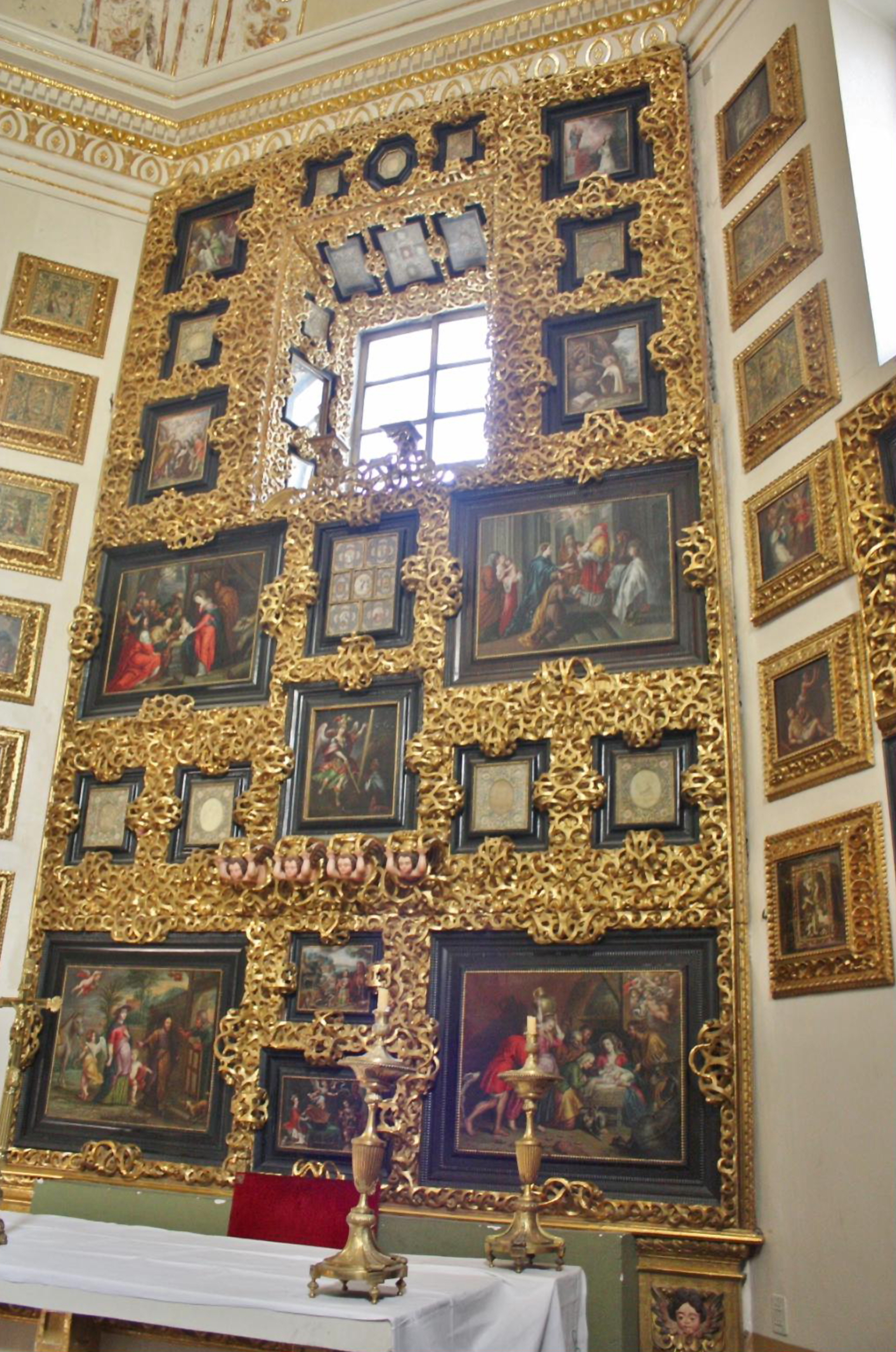 Holy Spirit Chapel (Ochavo), Cathedral of Puebla, Puebla de los Ángeles, Puebla state, Mexico